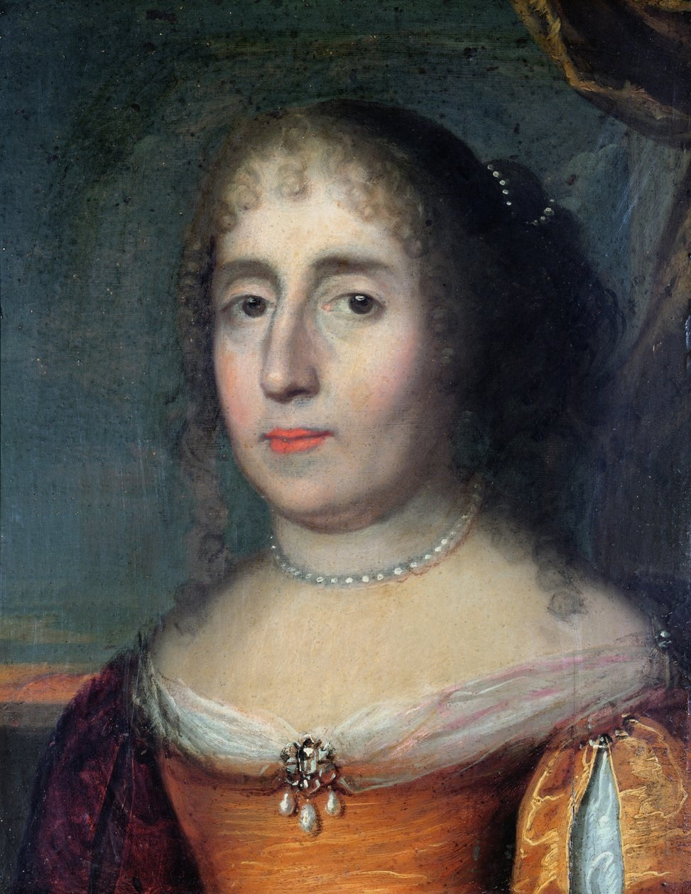 Madeleine de Scudéry (1607-1701)